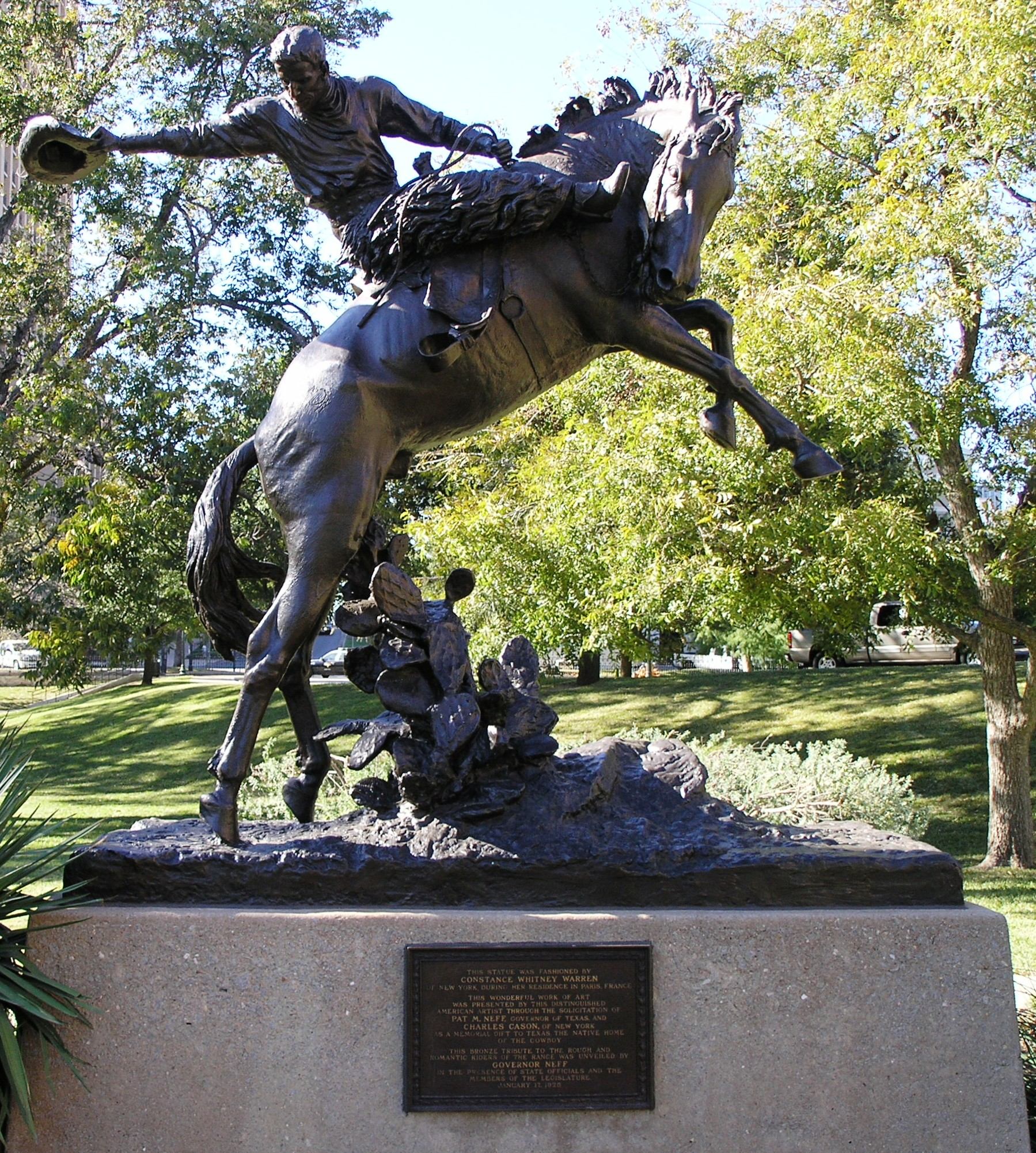 "The Cowboy" by Constance Whitney Warren at the Texas State Capitol, Austin, Texas, United States. Cast in 1921 in Paris, the monument was installed on the Capitol grounds in 1925.